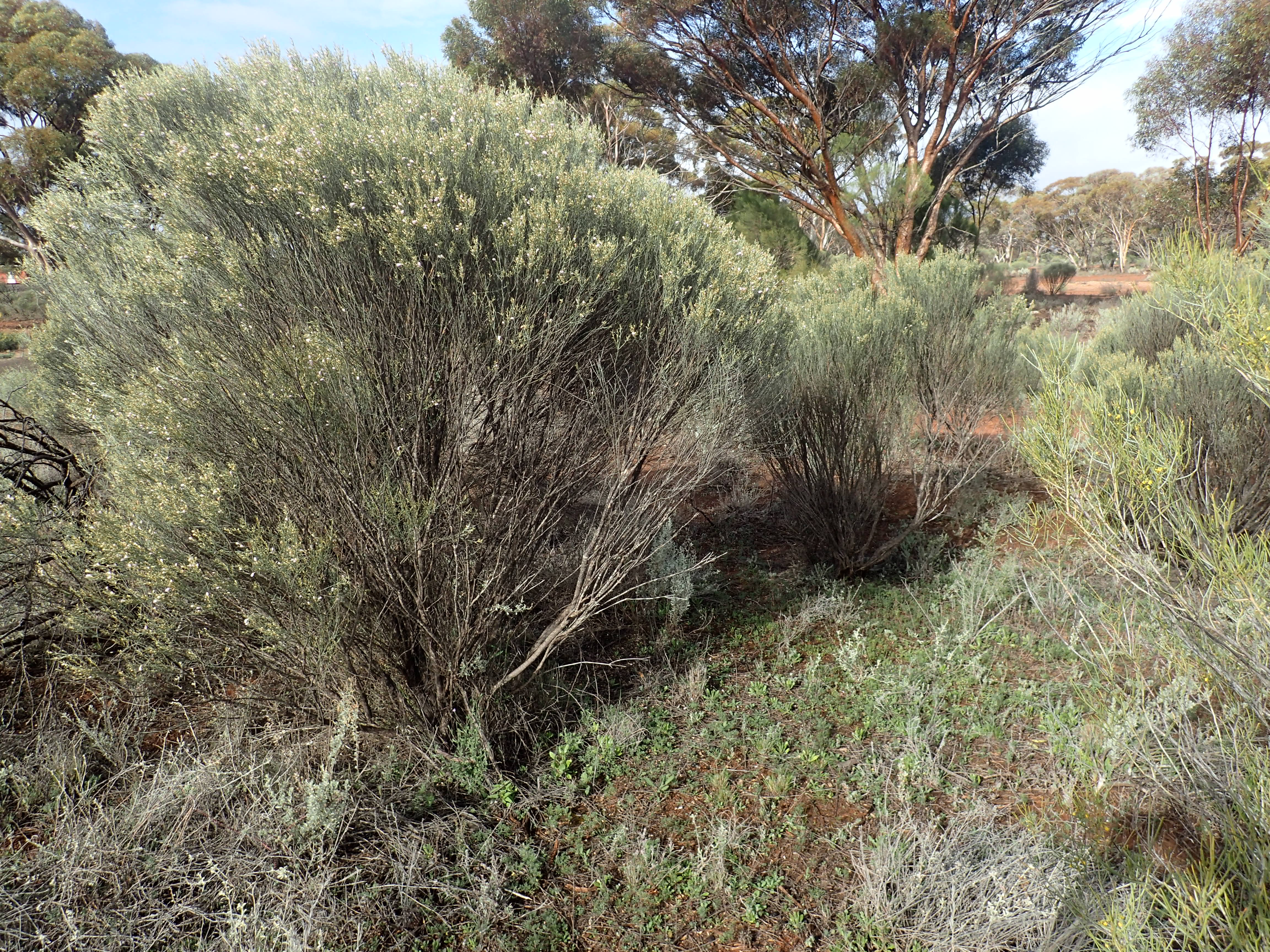 Eremophila scoparia growing near Bonnie Vale railway station